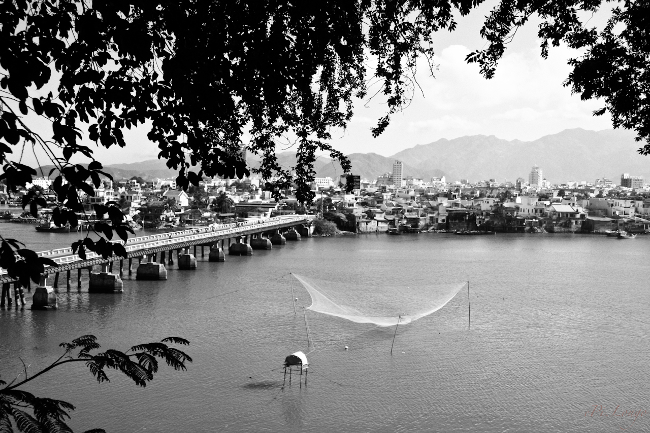 Cái River (also named Cù River, Phú Lộc River) in Nha Trang